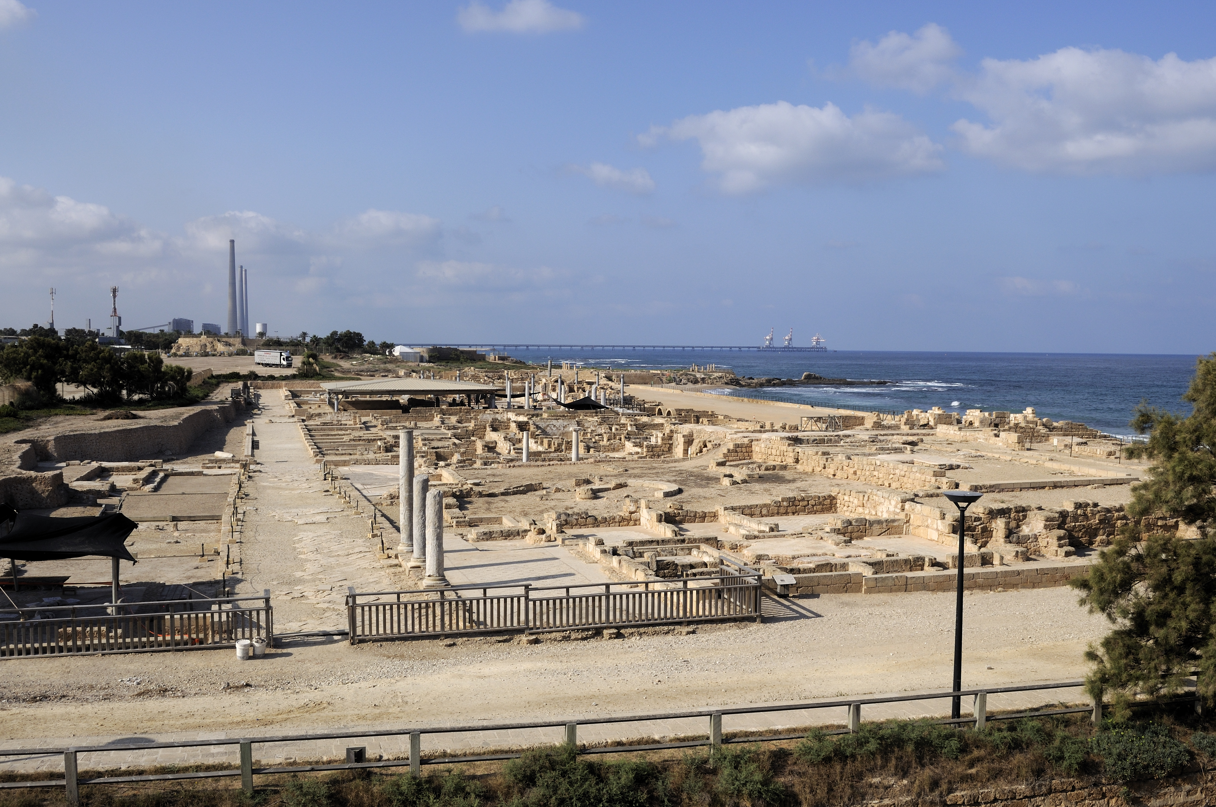 Picture taken in Caesarea Maritima national park.